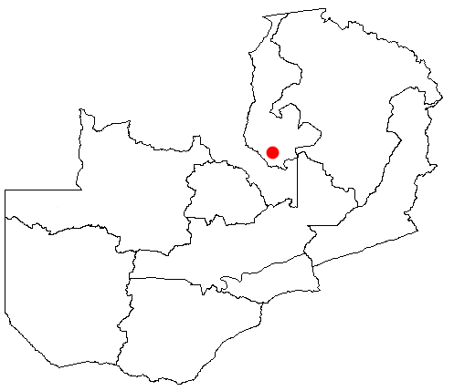 Milenge, Zambia Location Map; created with the GIMP. Made by User:Acntx.